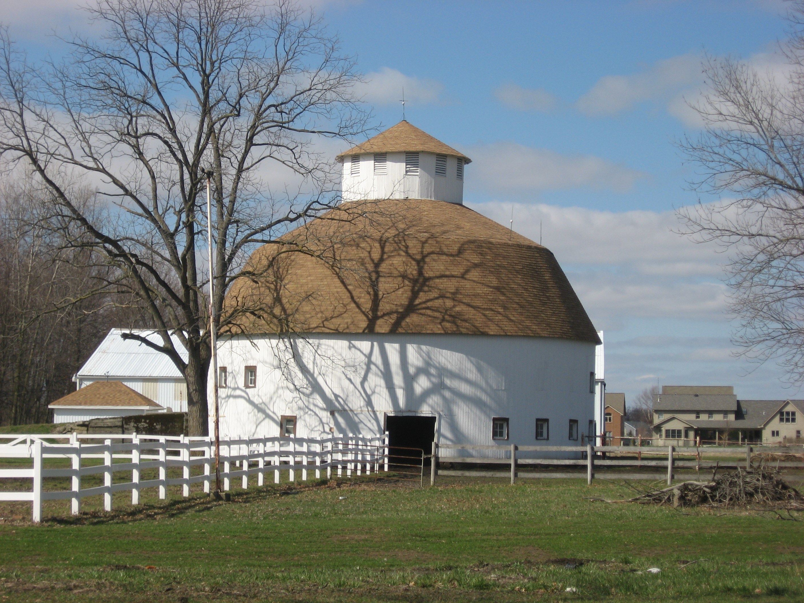 Exterior of the Isaac Rozell Round Barn, seen from the south. Located along East Road just south of Elida in northwestern American Township, Allen County, Ohio, United States, the barn was built in 1911 and is listed on the National Register of Historic Places.